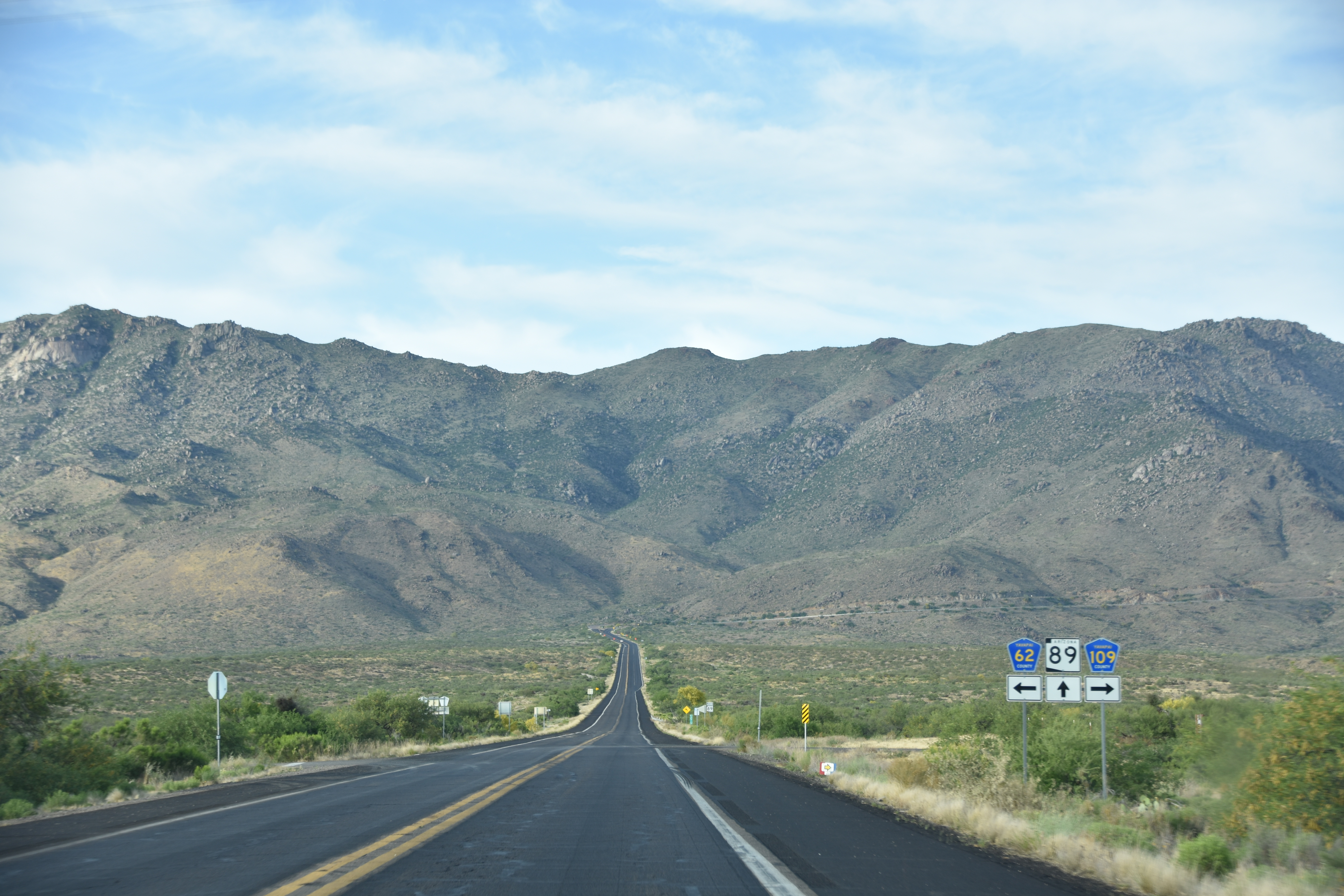 Arizona State Route south of Weaver Mountains, looking north.